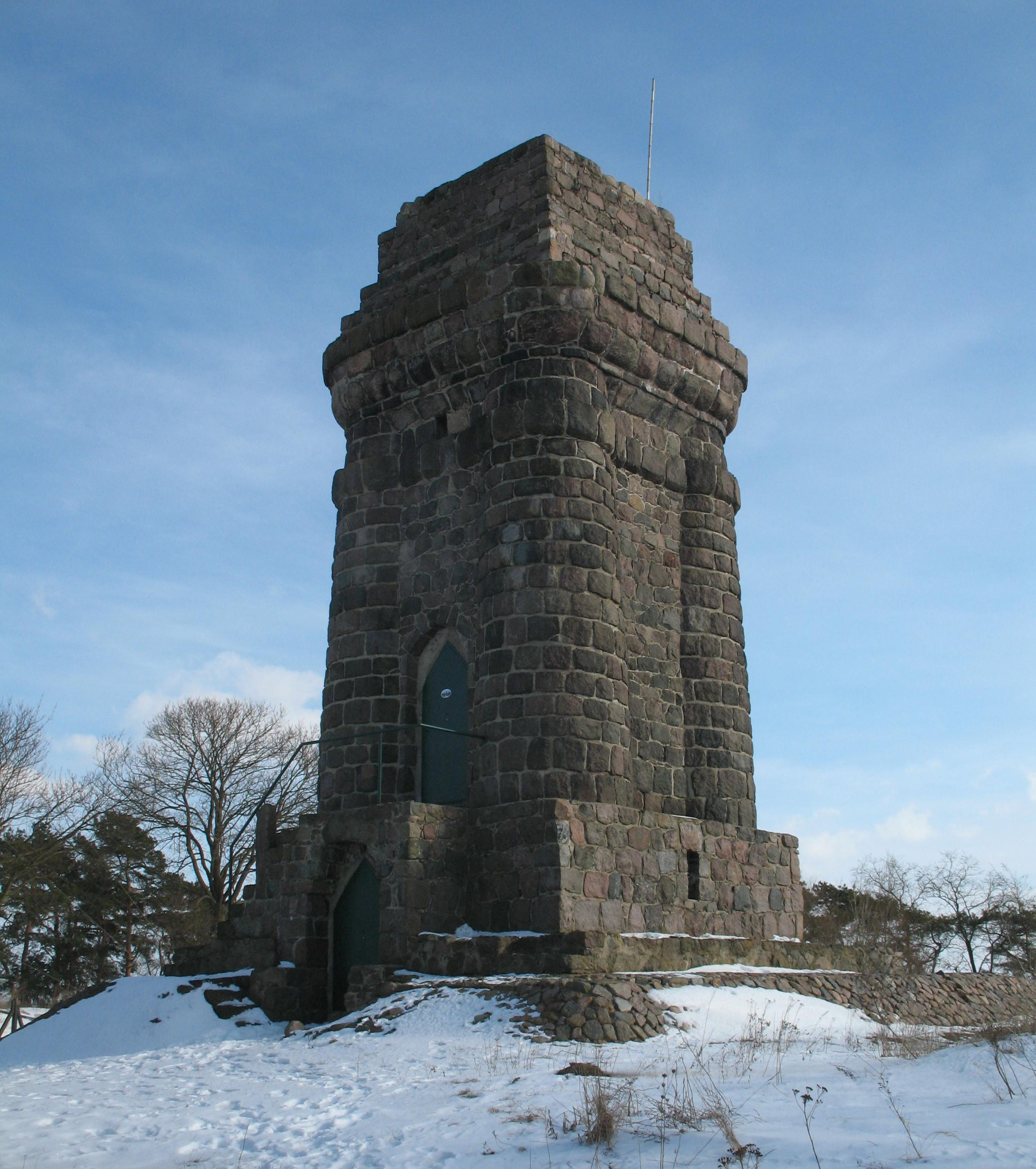 Bismarck tower near Zehdenick-Klein-Mutz in Brandenburg, Germany